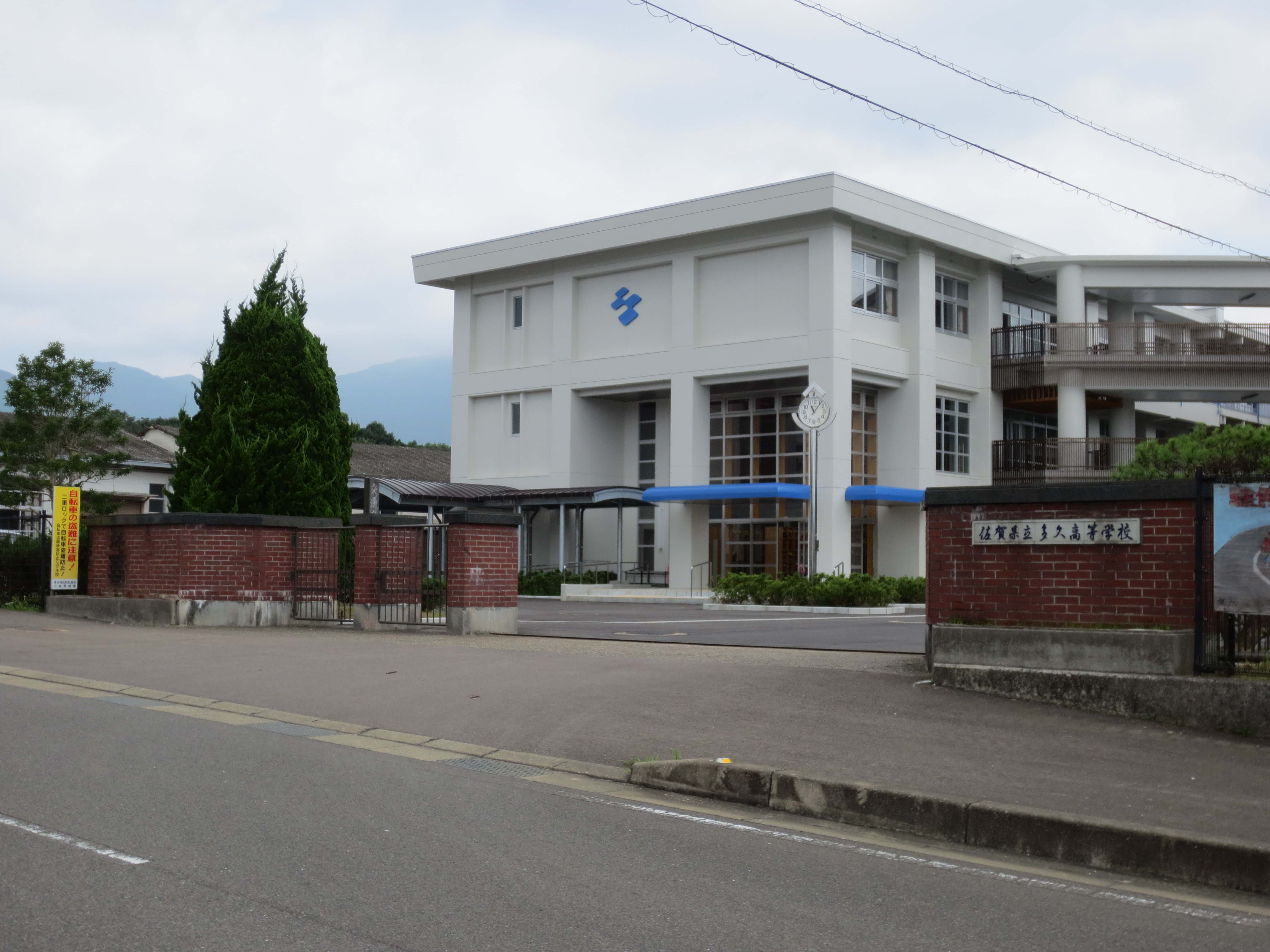 Saga Prefectural Taku High School